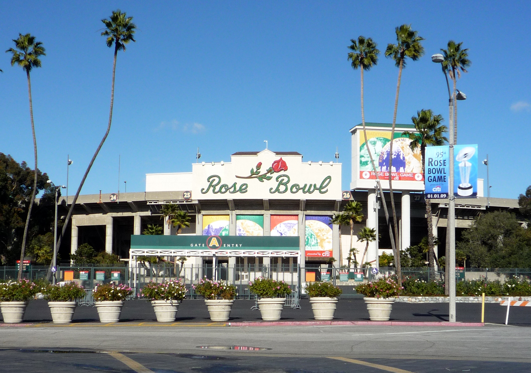 The Rose Bowl stadium before the 2009 Rose Bowl game, with sign advertising the game on January 1, 2009.